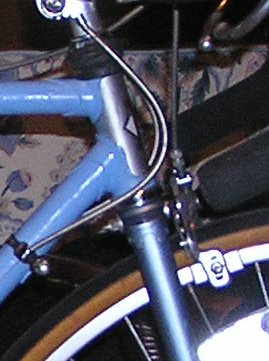 This photo shows the upper and lower head lugs on a 1983 Nishiki Sport road bicycle.